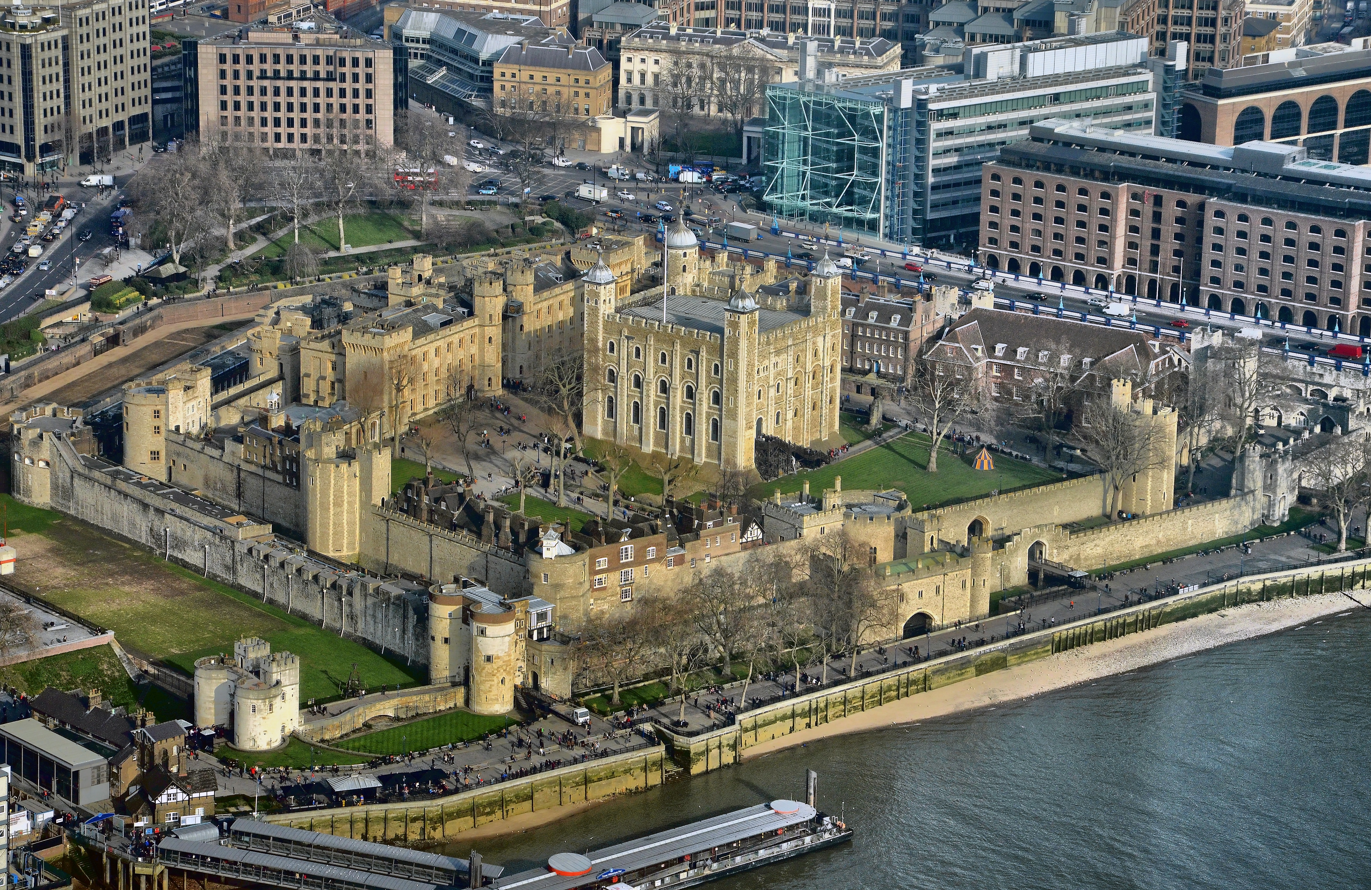 Tower of London, Another London landmark seen from the city's tallest building.